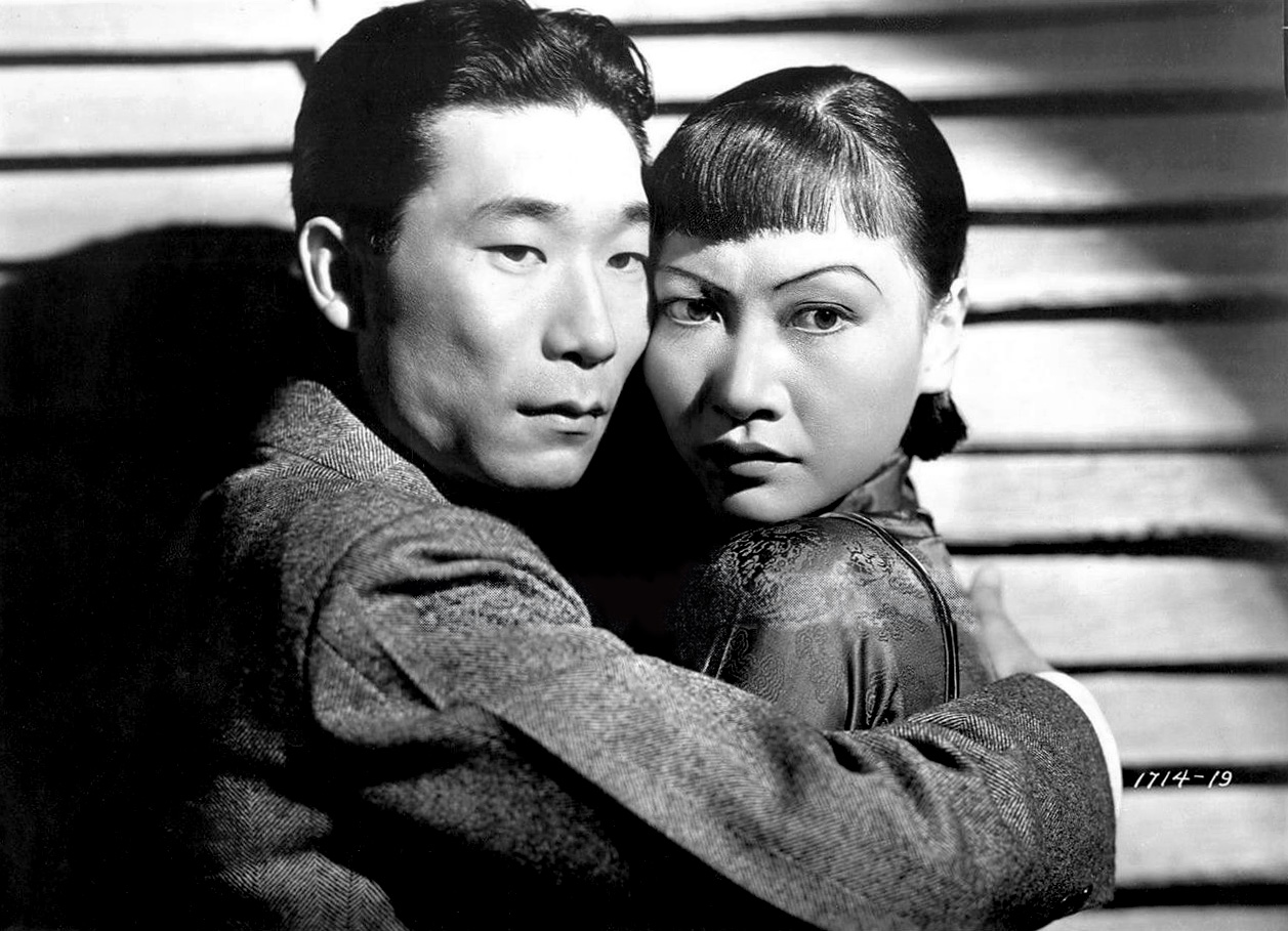 Publicity photo of Philip Ahn and Anna May Wong for the 1937 film Daughter of Shanghai.